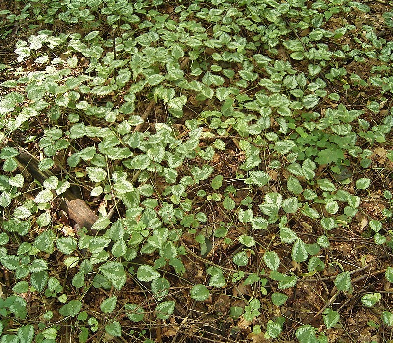 Lamium galeobdolon - "Lamium argentatum" type